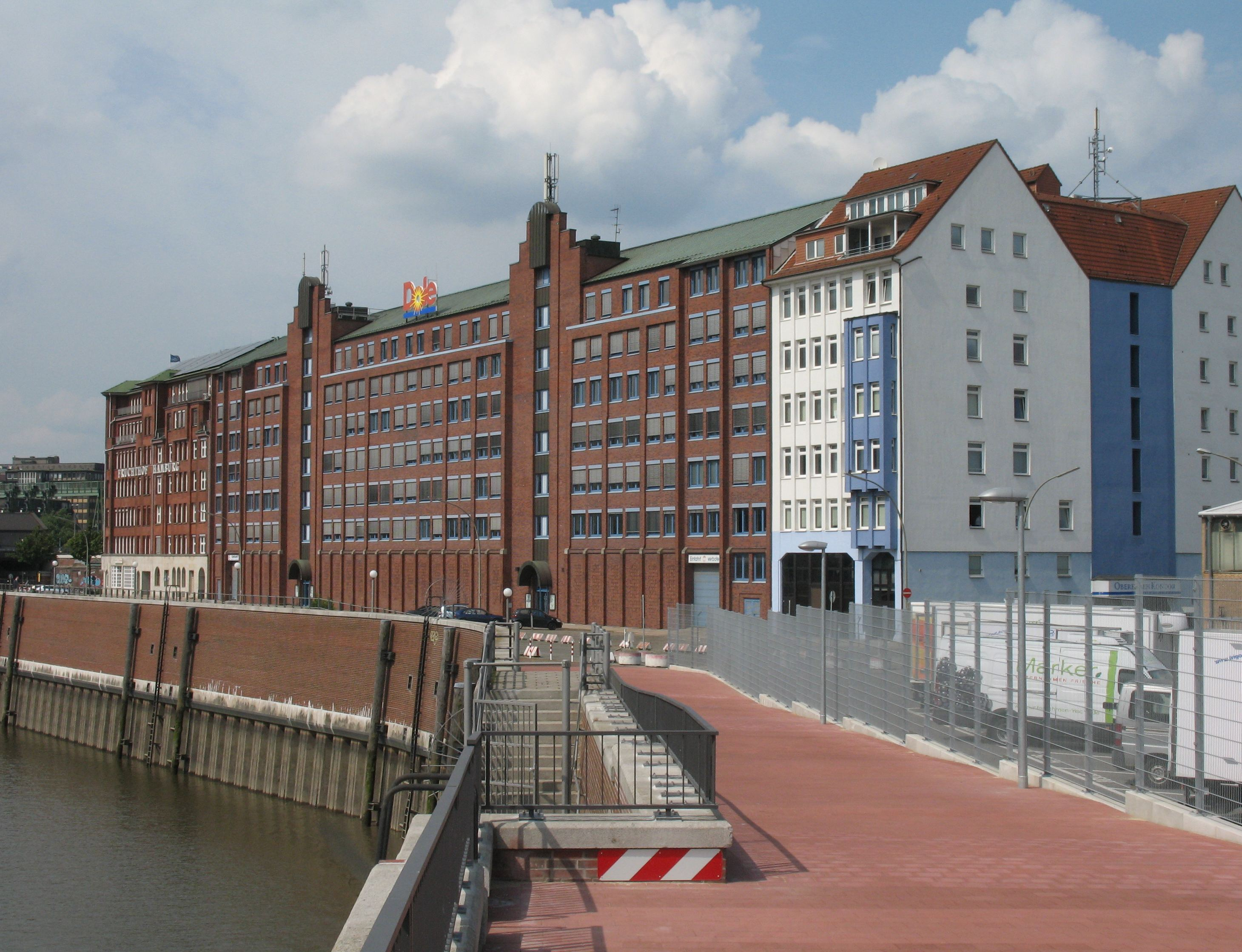 Office building „Fruchthof“ in Hamburg-Hammerbrook, Germany